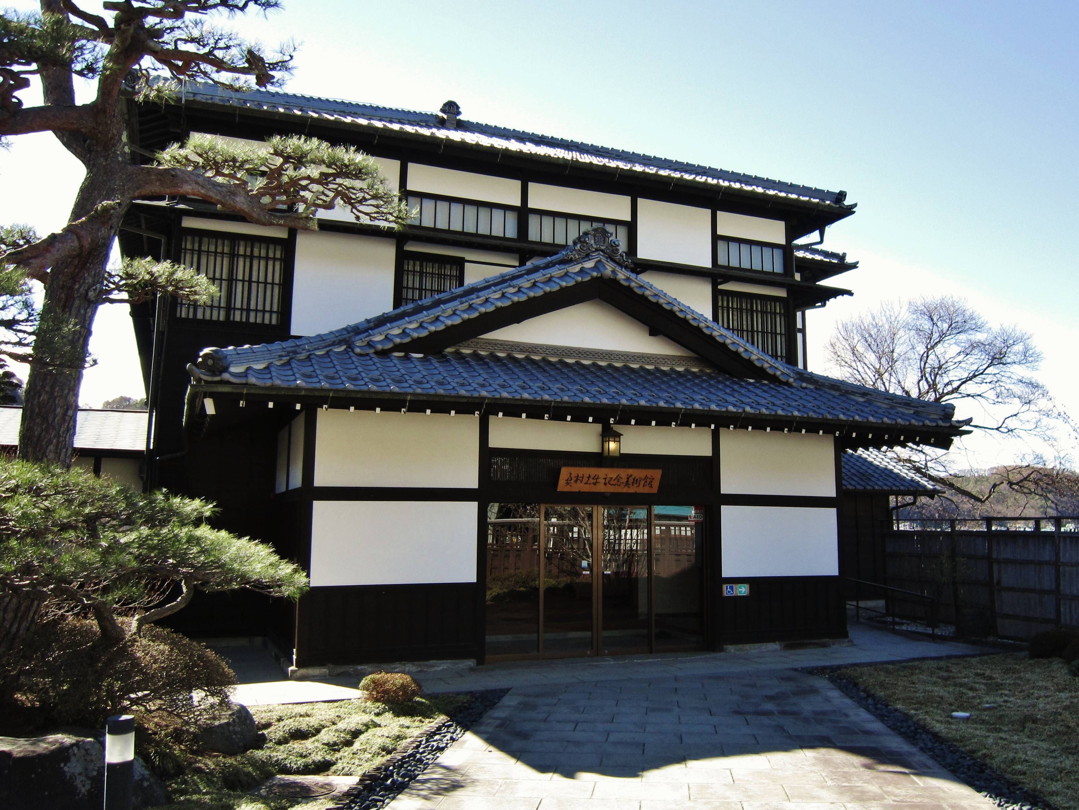 Okumura Togyu Memorial Museum of Art.